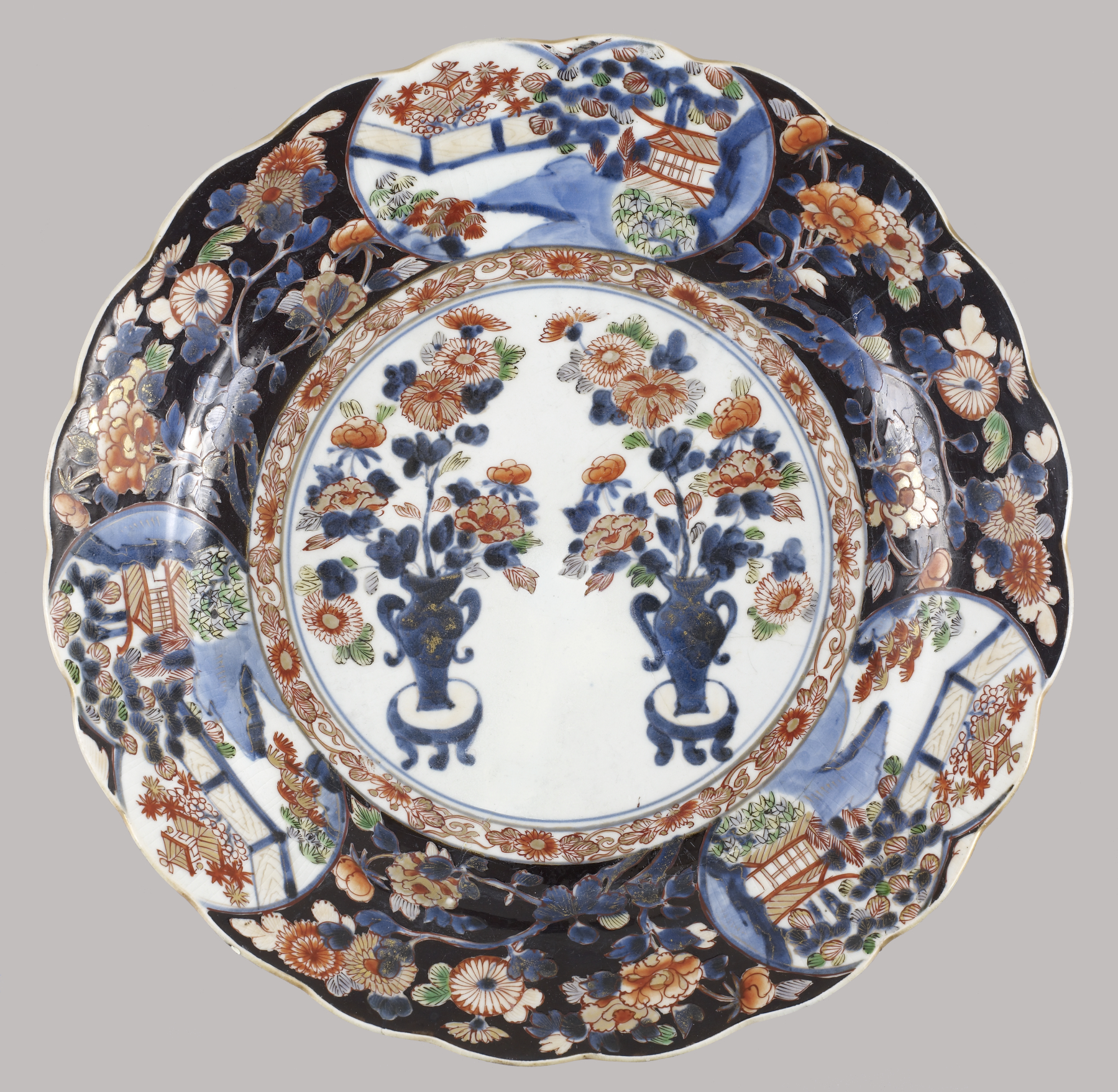 This is an example of Imari ware.